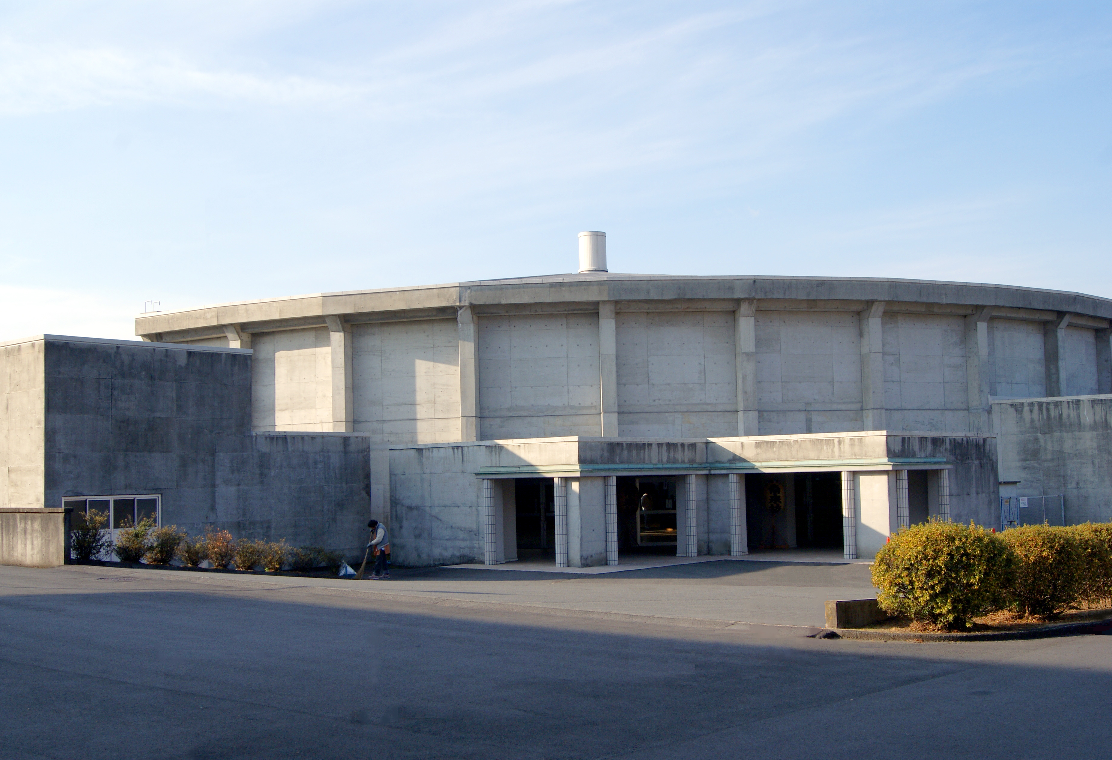 Jyōrai-bō of Taiseki-ji.